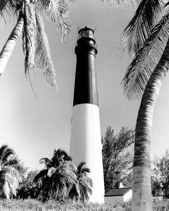 Copied from drytortugas.JPG at this page where it is credited: "no photo number/caption/date; photographer unknown". Ownership disclaimer at [1] says, "Information presented on this web site is considered public information and may be distributed or copied."